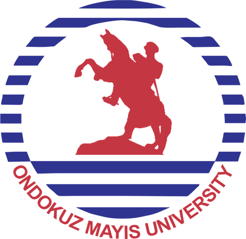 OMU Logo in englishTürkçe: OMÜ Logo ingilizce